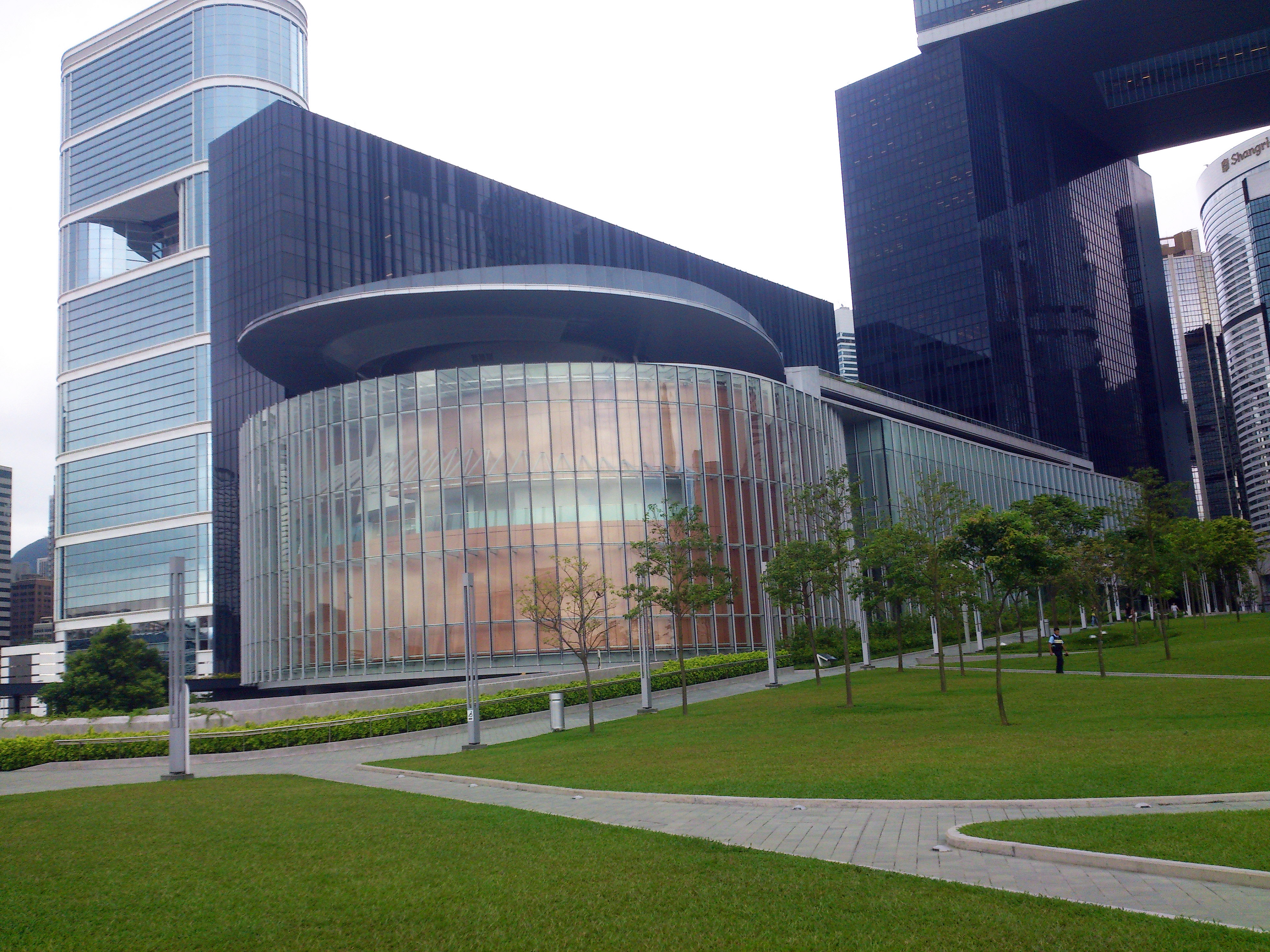 Legislative Council Complex 2013